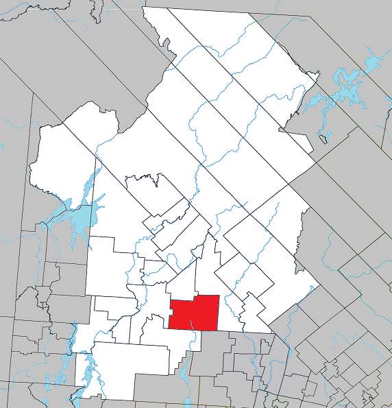 Location of Nominingue, Quebec within Antoine-Labelle Regional County Municipality.